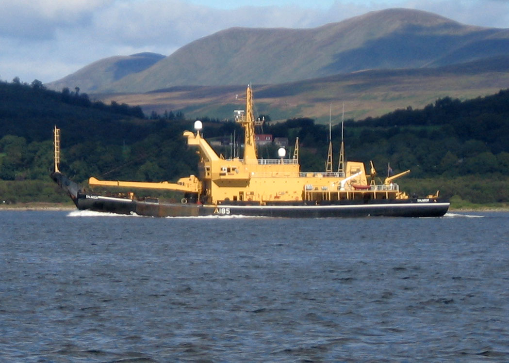 RMAS Salmoor (A185) on the Firth of Clyde in Scotland, seen from Gourock. IMO Number: 8401999 MMSI Number: 235003070 Callsign: GAAK Length: 77 m Beam: 16 m